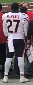 Sherrick McManis in 2018